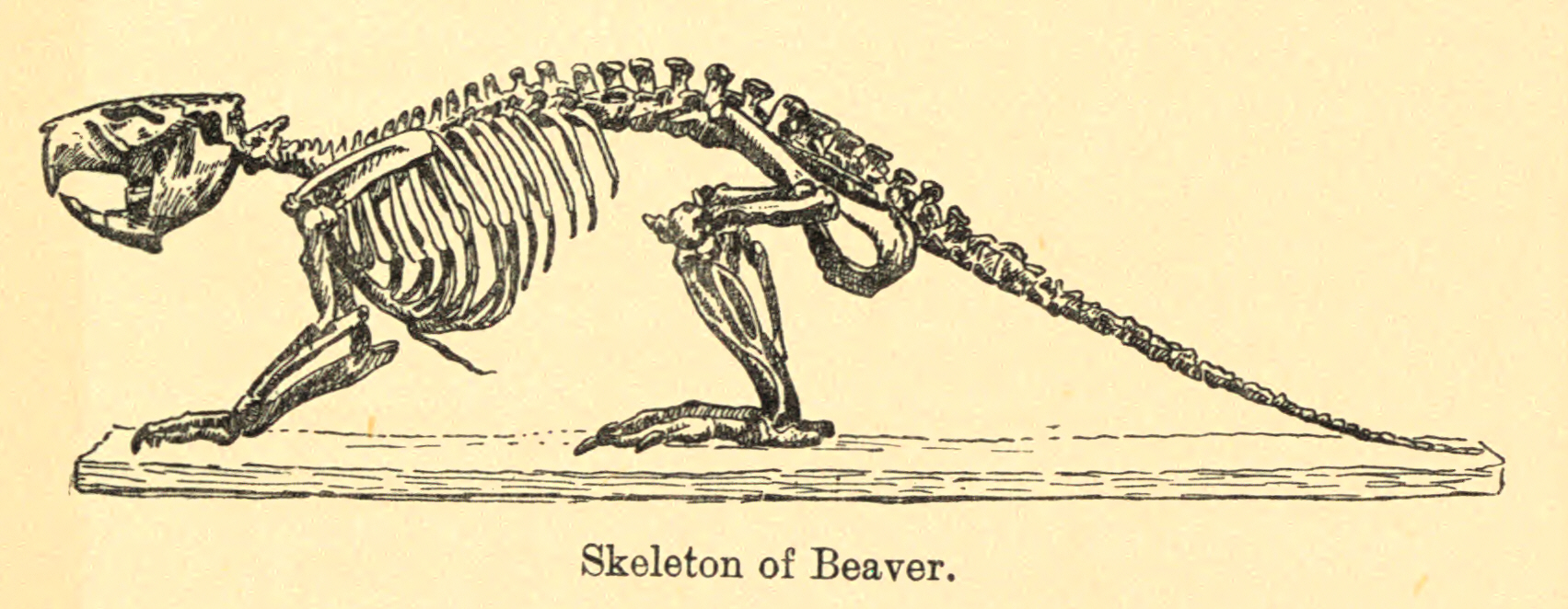 Illustration from the book The romance of the beaver; being the history of the beaver in the western hemisphere by Dugmore, Arthur Radclyffe, 1914.